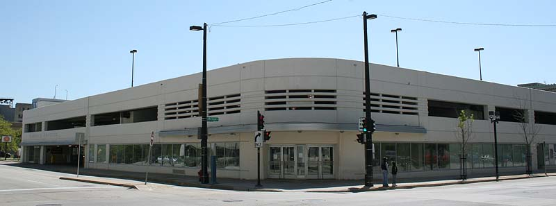 Gimbels Parking Pavilion, a National Registered Historic Place in Milwaukee Wisconsin.